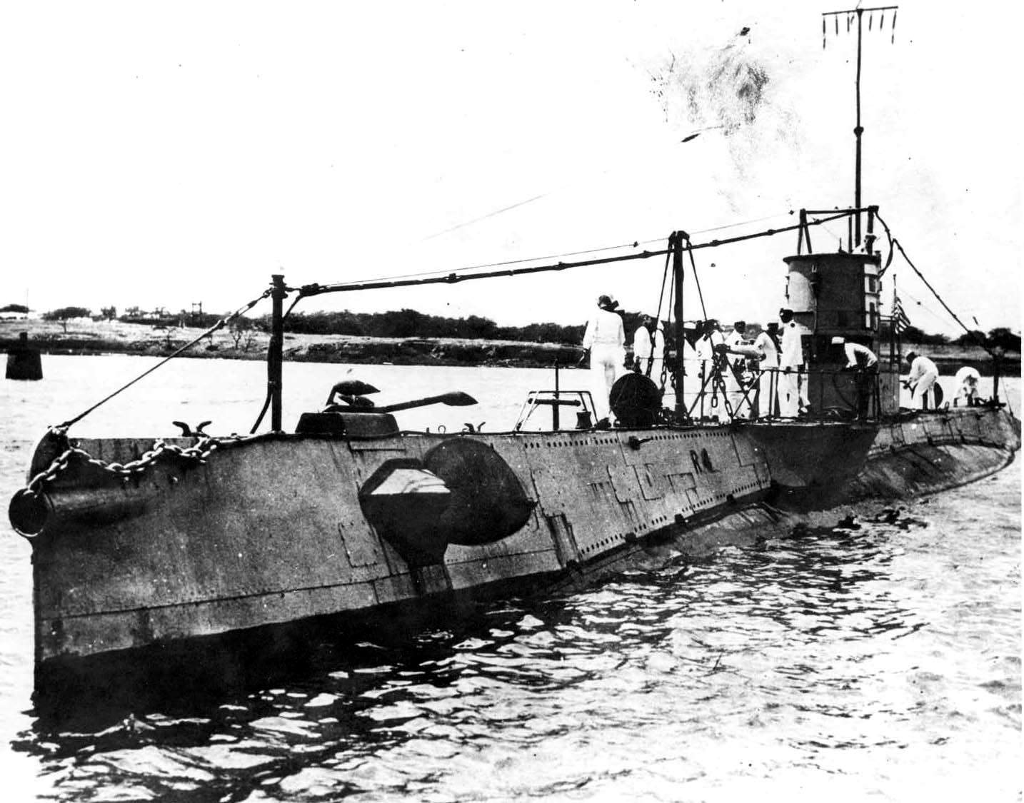 United States Navy submarine